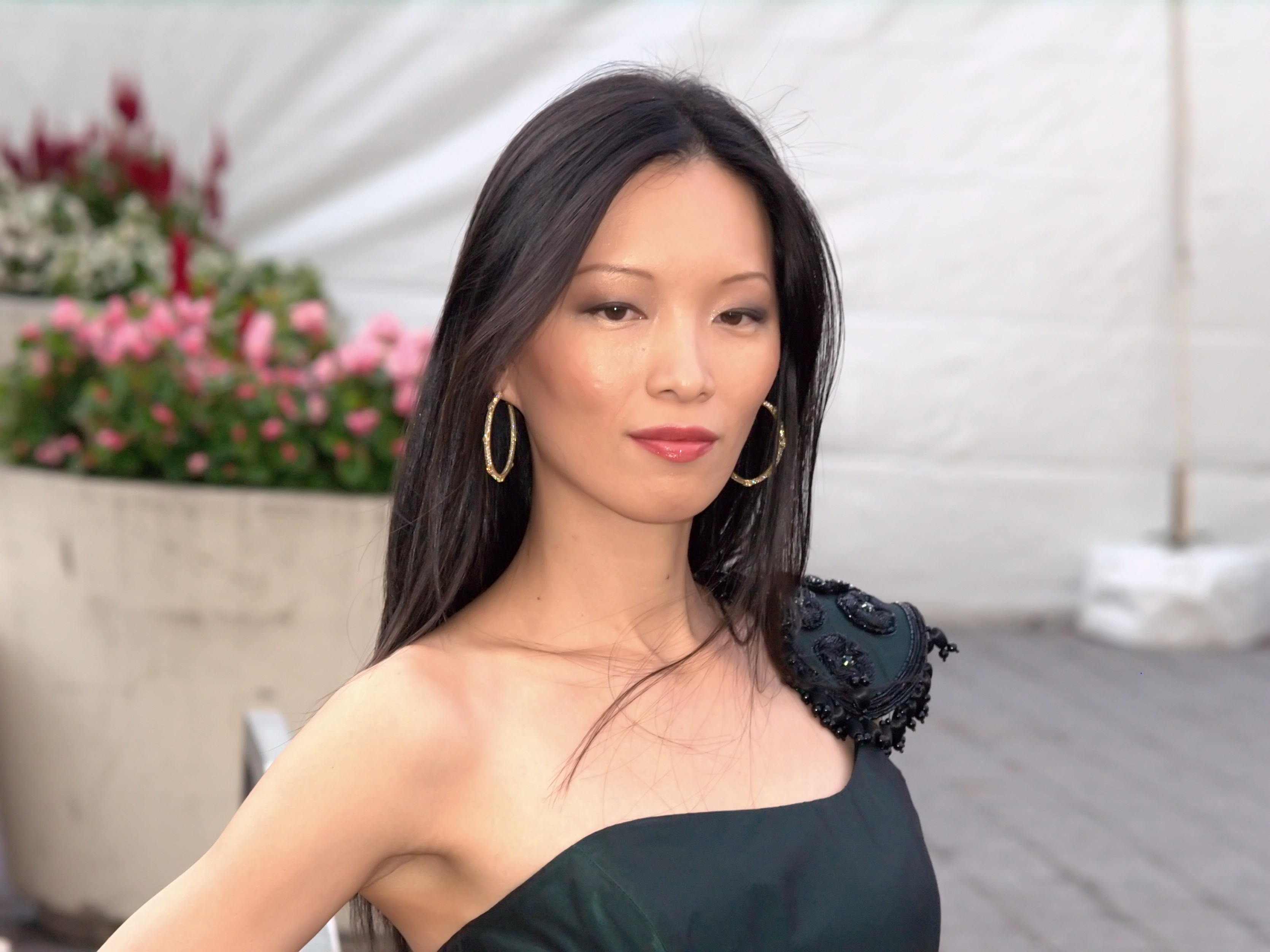 Ling Tan at the 2009 premiere of the Metropolitan Opera in New York City. Photographer's blog post about event and photograph.